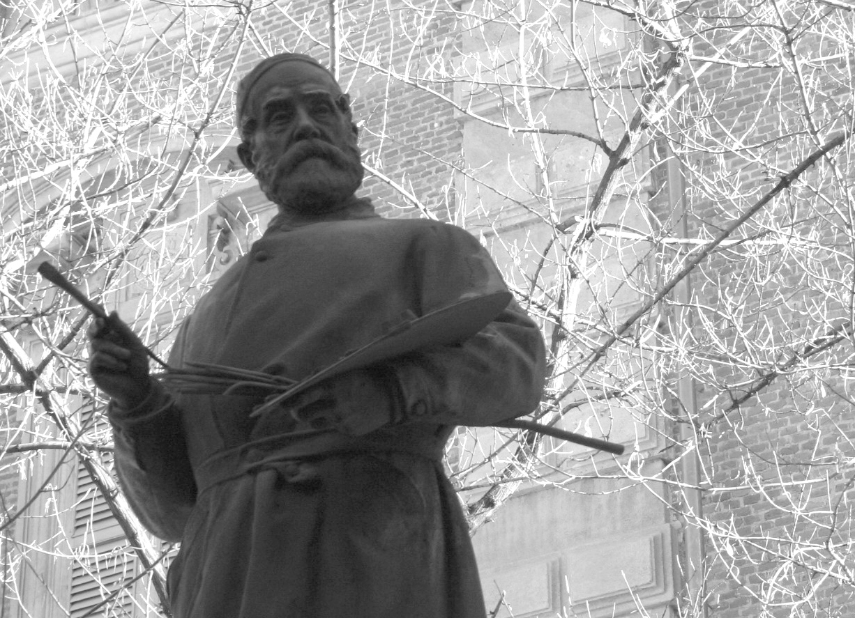 Detail of the monument to painter Francesco Hayez in Piazzetta Brera square in Milan, Italy. The monument, sculpted by Francesco Barzaghi, was inaugurated in 1890. Picture by Giovanni Dall'Orto, February 19 2007.